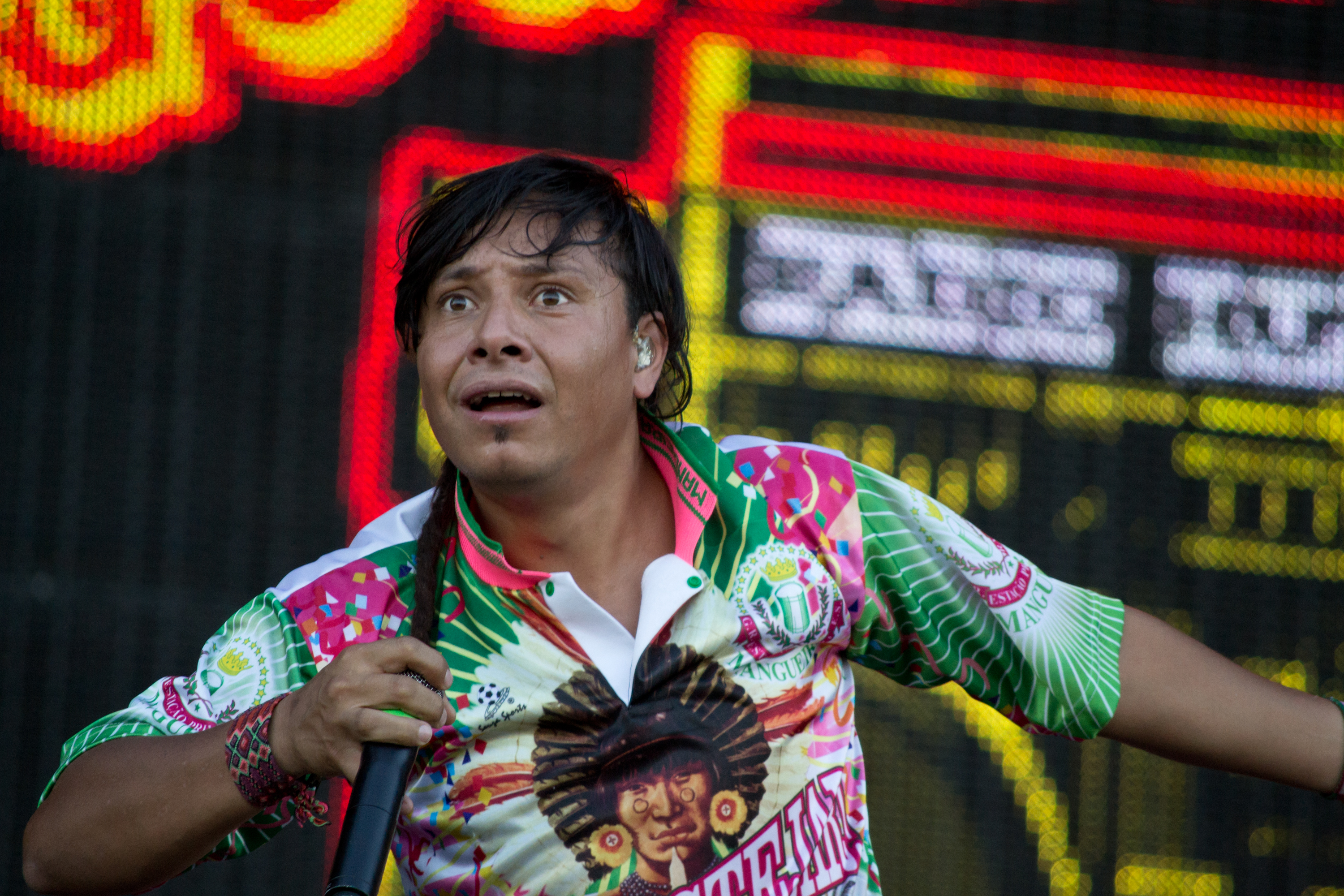 Gogol Bordello in Rock in Rio Madrid 2012.